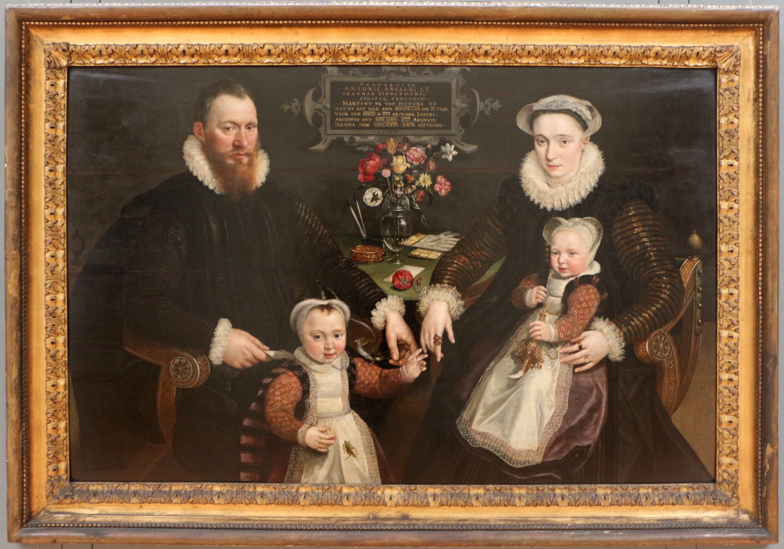 Southern Netherlandish paintings in the Royal Museums of Fine Arts of Belgium